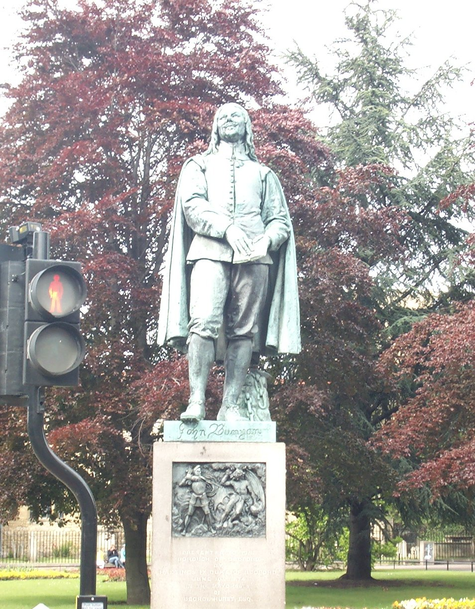 Photograph of old bronze statue, of famous writer preacher and killjoy, John Bunyan, at the end of Bedford High Street. Statue was given to the lucky people of Bedford, England by the Duke of Bedford in 1874. The sculptor was Sir Joseph Edgar Boehm (1834 - 1890).